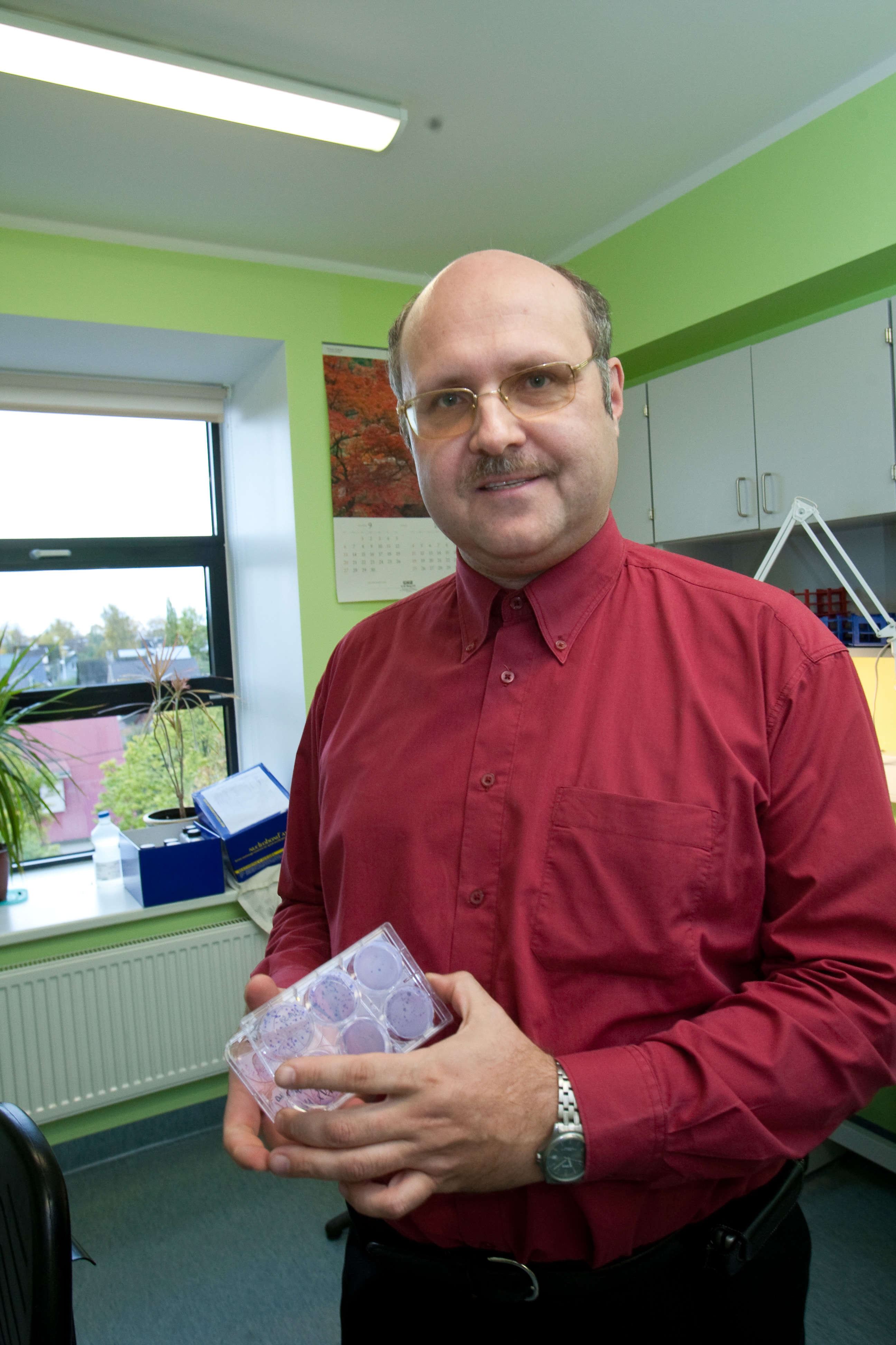 TÜ Tehnoloogia Instituudi Keemilise Bioloogia Tippkeskuse RNA viiruste uurimisrühm. Mõningaid viirusi on parem uurida makroskoopiliselt. Andres Meritsa käes on alus kuue nn katsetassiga, kuhu külvatud rakke on nakatatud viirusega. Seejärel on juurde pandud ühendit, mis peaks viirust mõjutama ning seda, kuidas viirus ühendi juuresolekul käitub, saabki hinnata tassile moodustunud siniseks värvitud rakukolooniate arvu järgi. Pildistaud TÜ ajakirja tellimusel.